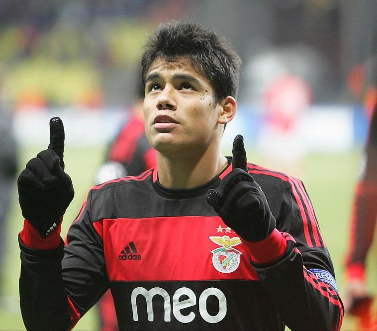 Melgarejo playing for Benfica against FC Spartak Moscow in an UEFA Champions League game in Moscow.